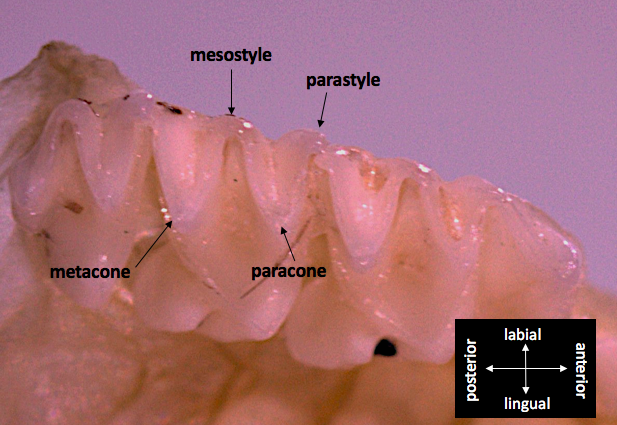 Image of the upper teeth of a microbat displaying a dilambdodont teeth pattern. Specimen from the Pacific Lutheran University Natural History collection.